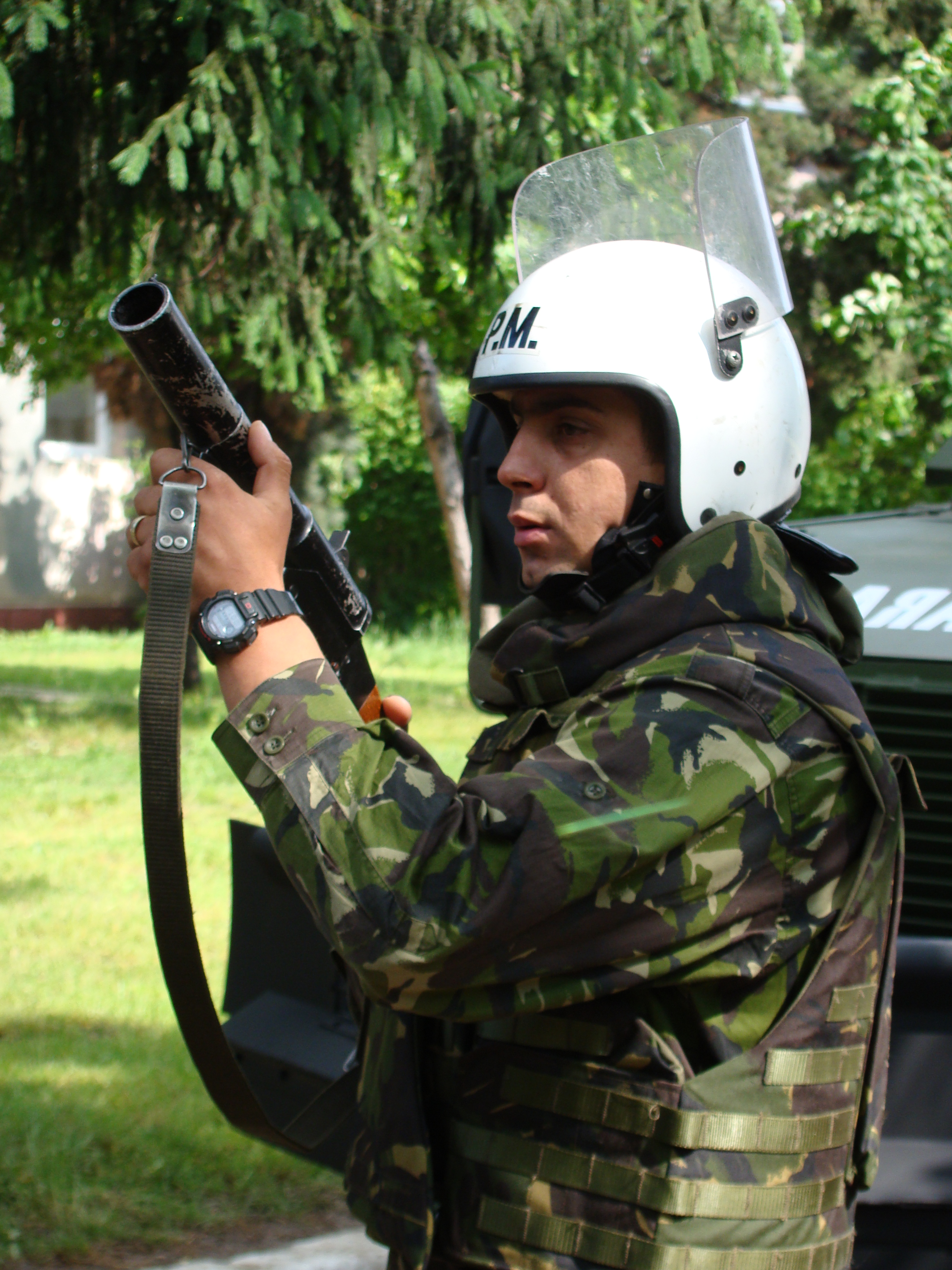 Military Police Day celebrated by the 265th Military Police Battalion of the Romanian Land Forces.